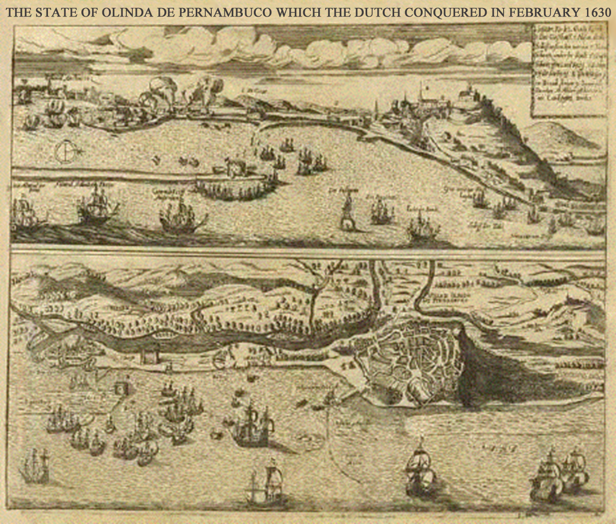 German map of dutch Olinda in Brasil probably made in 1650